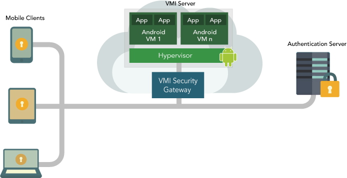 A network diagram depicting a Virtual Mobile Infrastructure (VMI) deployment.